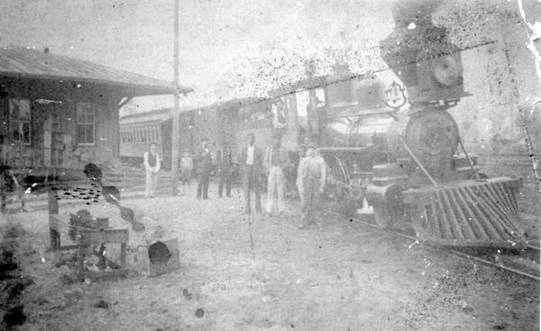 A railroad track with a train in Melrose, Florida, which shipped citrus and other goods.